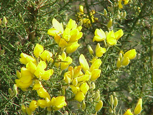 Species: Ulex europaeus Family: Fabaceae Image No. 5